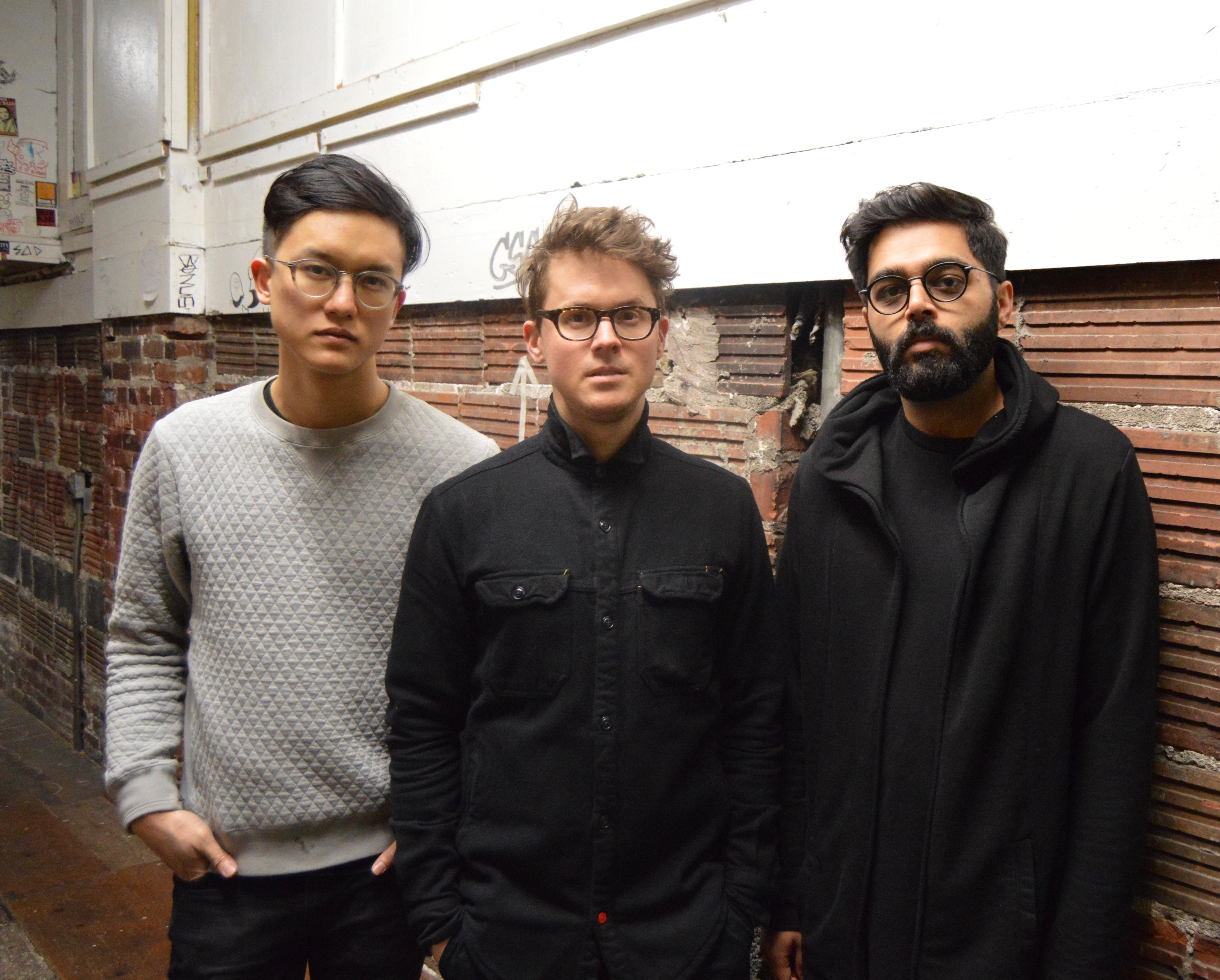 Son Lux before show in Indianapolis, Indiana in 2016